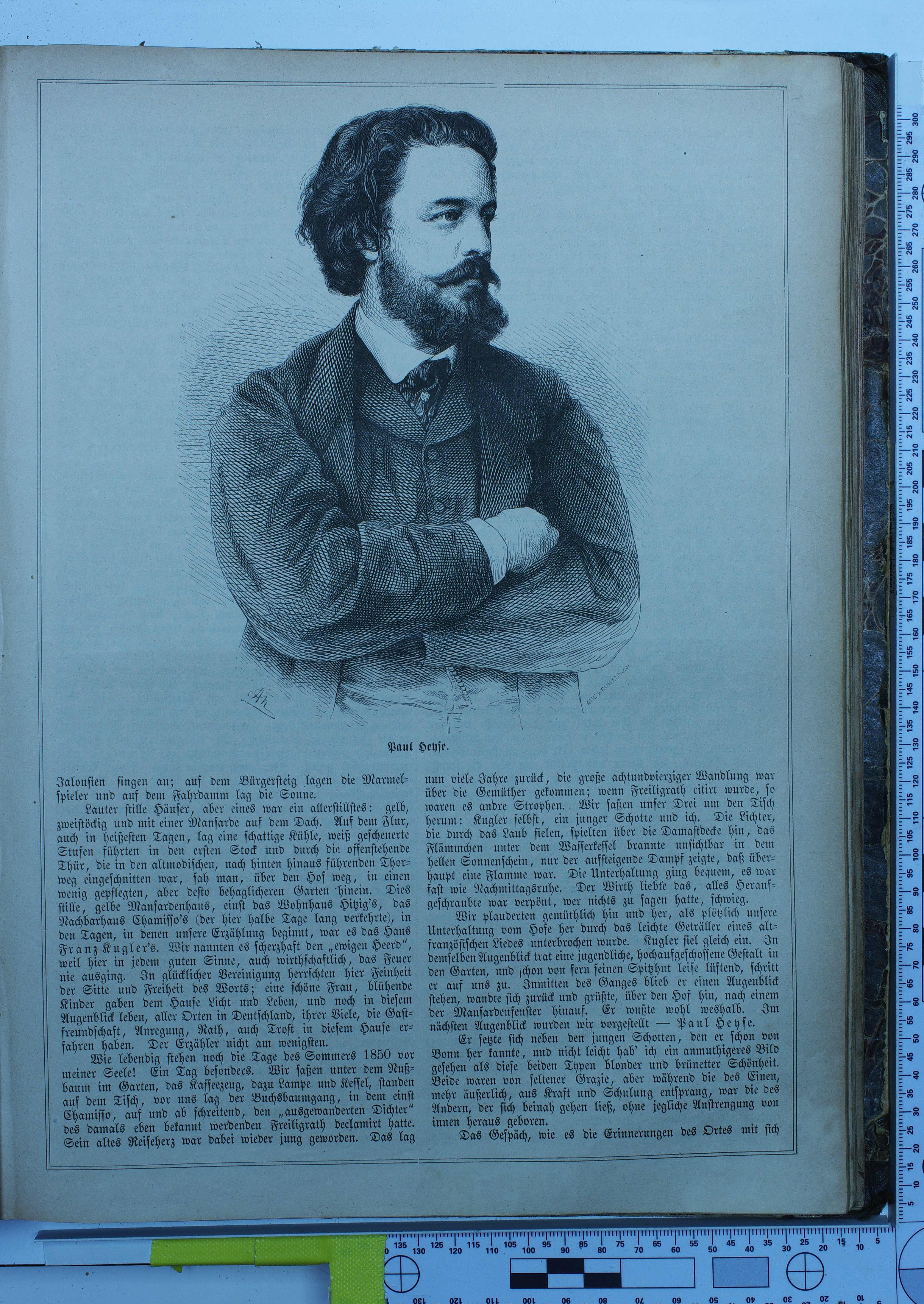 no caption